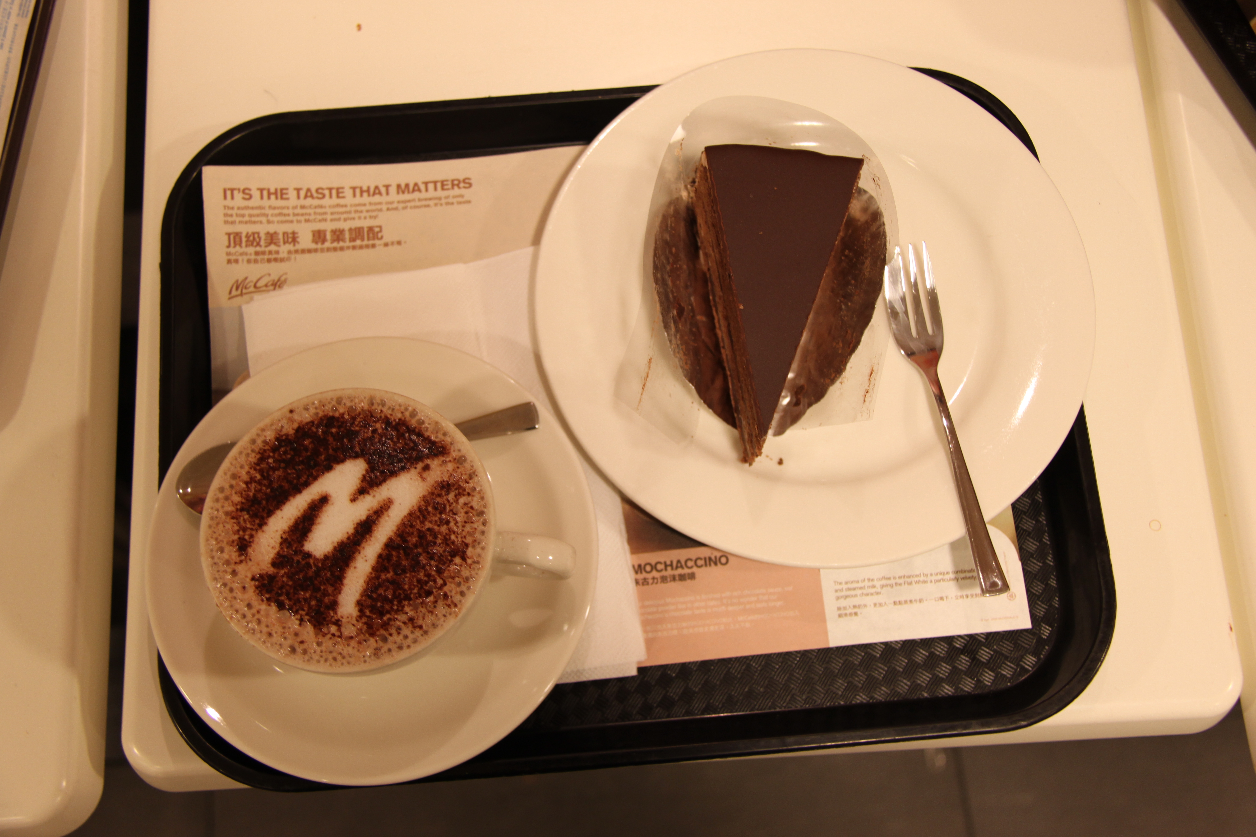 McCafe Coffee and Cake in Hong Kong